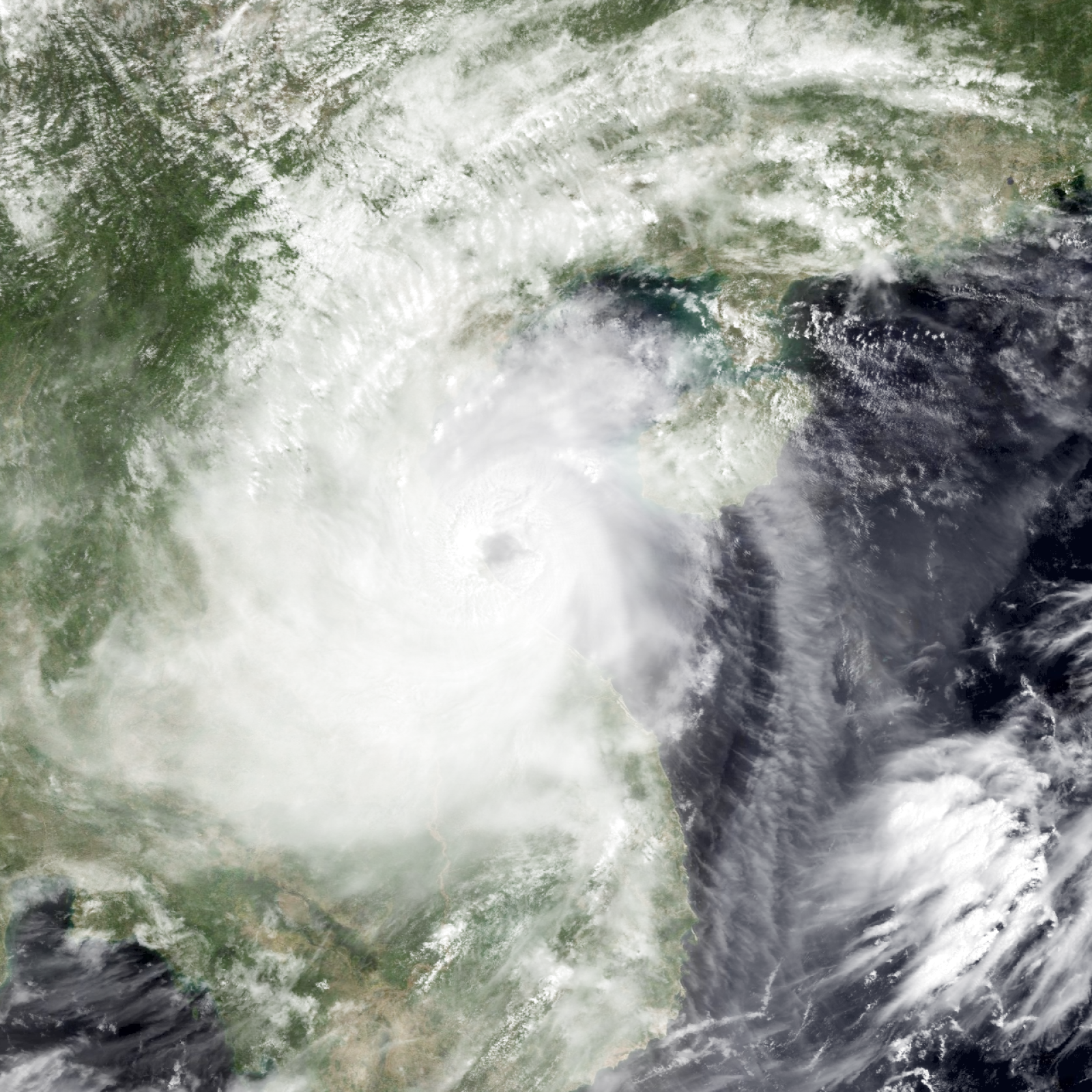 Typhoon Doksuri making landfall in Vietnam at peak intensity on September 15